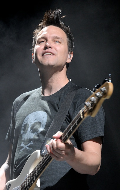 Mark Hoppus of Blink 182 at the 2011 Honda Civic Tour in Montreal.